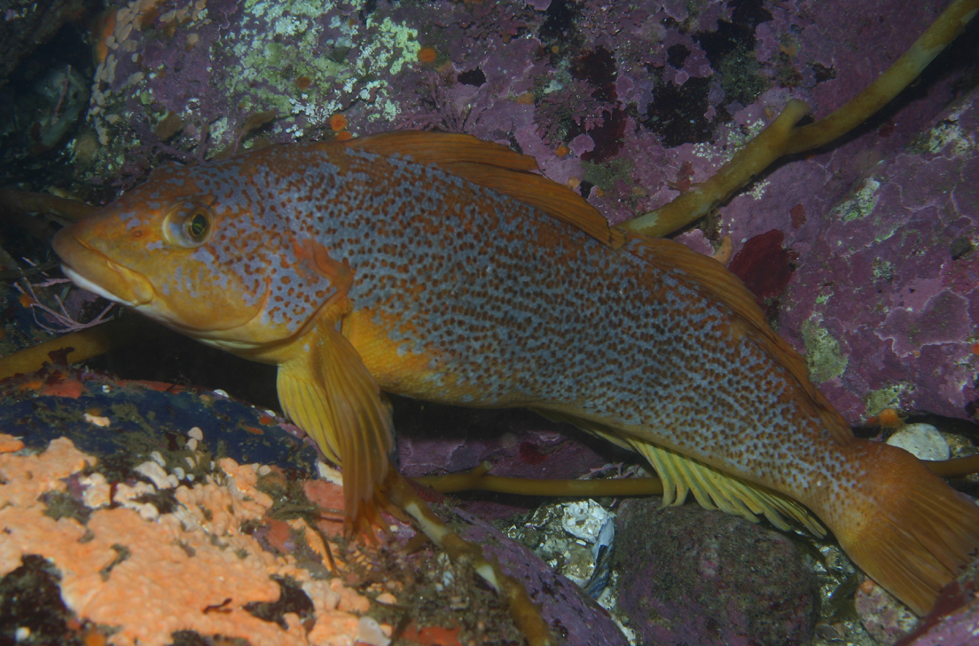 Female kelp greenlings (Hexagrammos decagrammus) usually avoid divers, but this female practically posed.